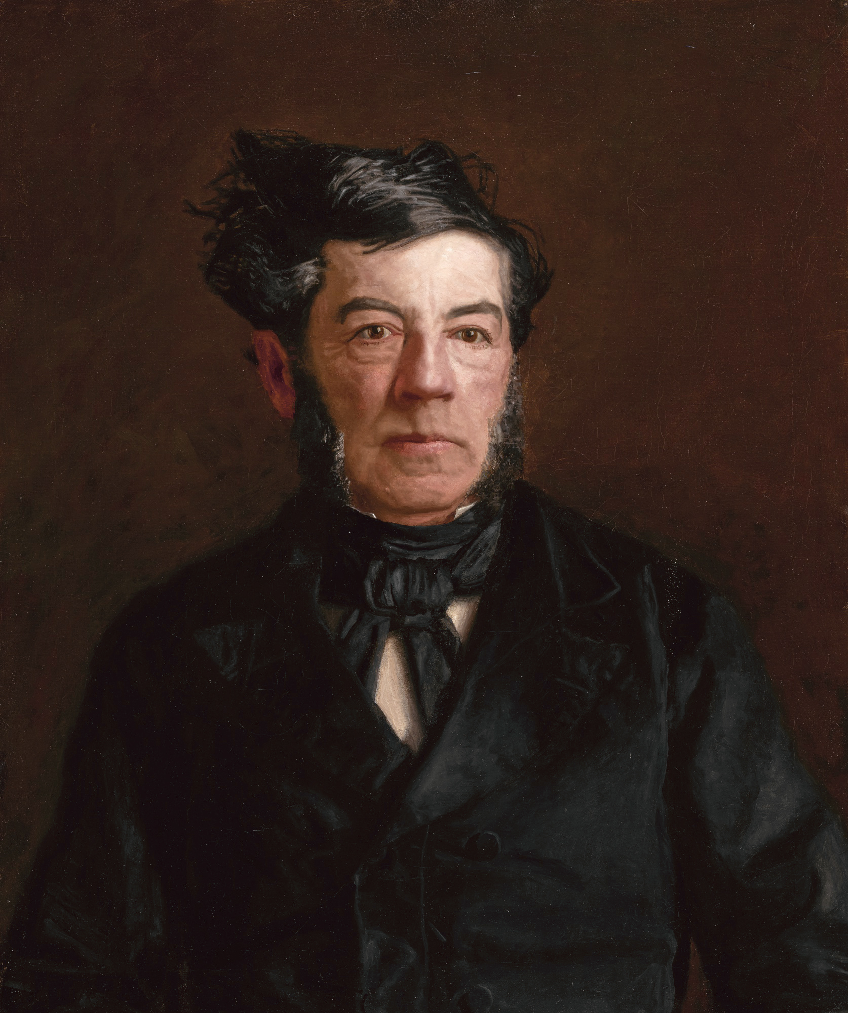 General George Cadwalader oil on canvas mounted on panel 76.2 x 63.8 cm circa 1880